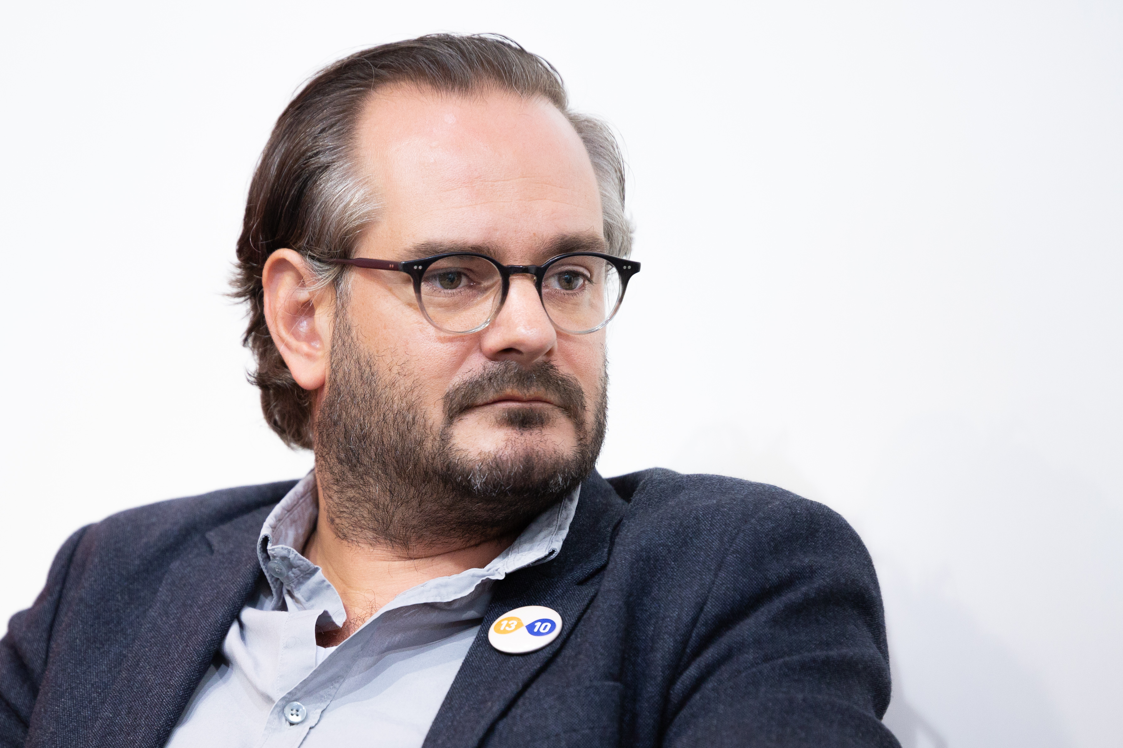 Jonas Lüscher at the Frankfurt Book Fair 2018